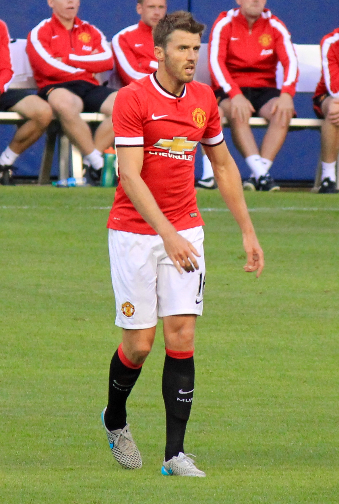 Michael Carrick playing for Manchester United in pre-season friendly against Club America